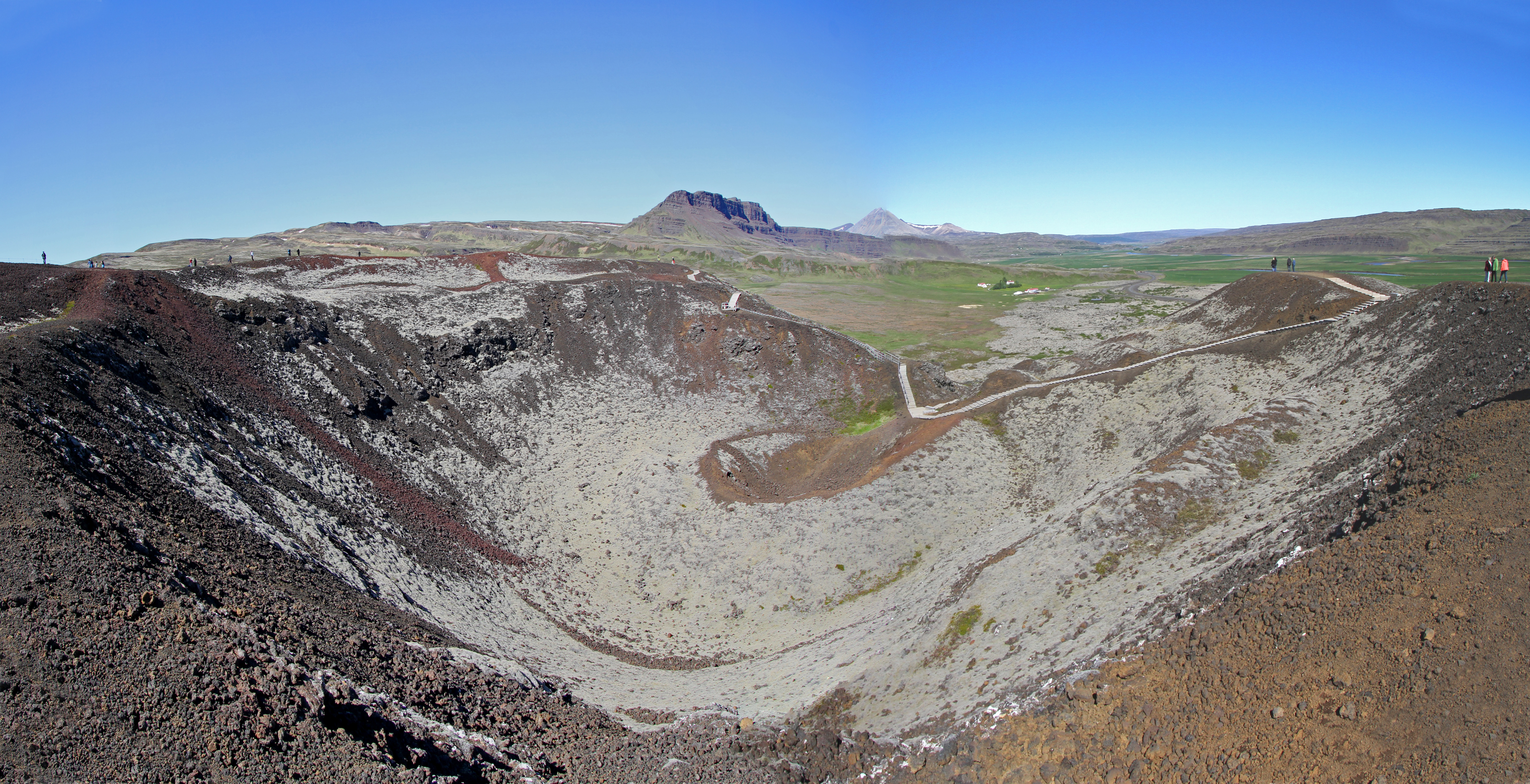 Grábrók volcanic field